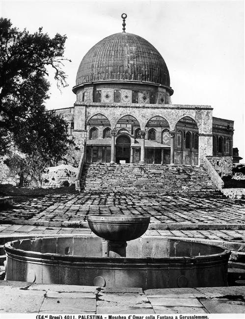 Giacomo Brogi (1822-1881) - "Palestine. Omar Mosque, with the fountain, in Jerusalem". Catalogue # 4011.